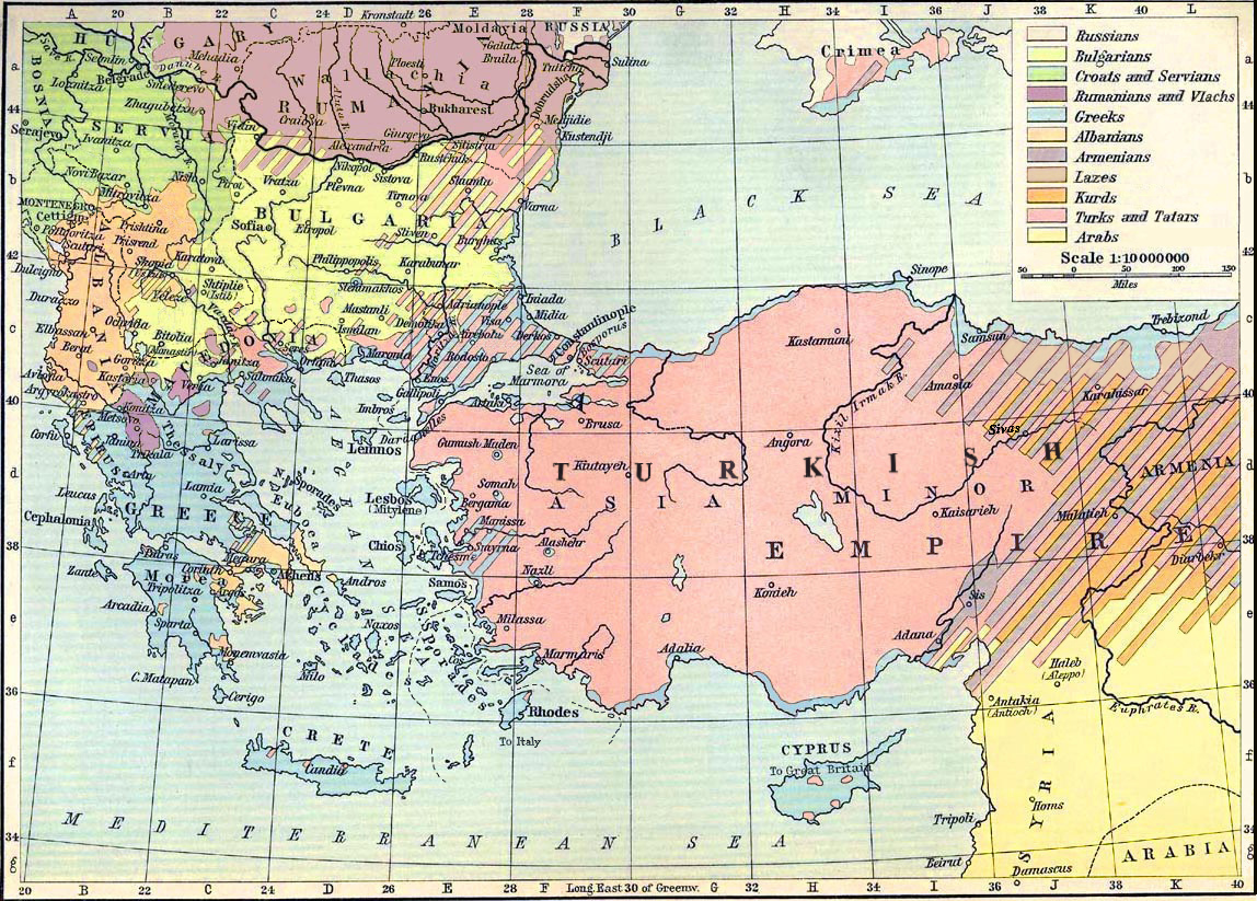 Balkan and Anatolia linguistic groups, old map of 1913